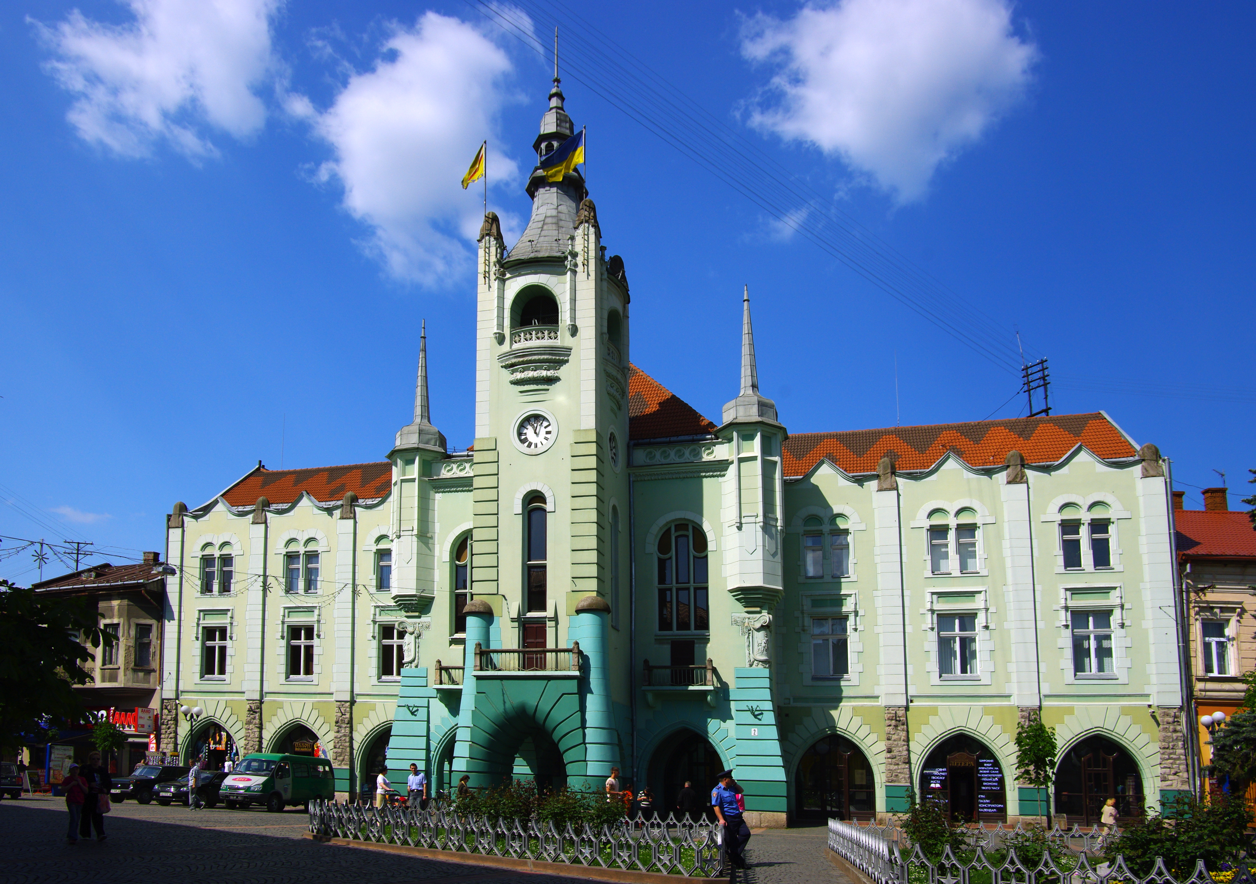 Mukacheve_town_hall